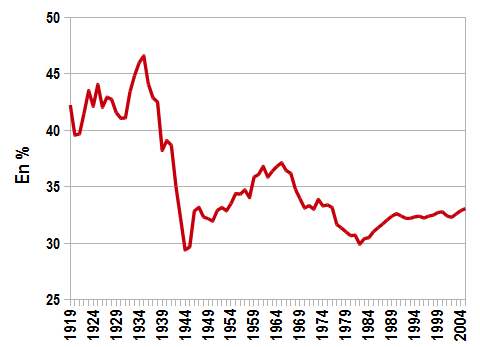 The top decile income share in France (1919 - 2005). Data from Thomas Piketty "Les hauts revenus en France au XXème siècle", Grasset, 2001 available on this site up to 1998 and afterward Camille Landais (avalable here)